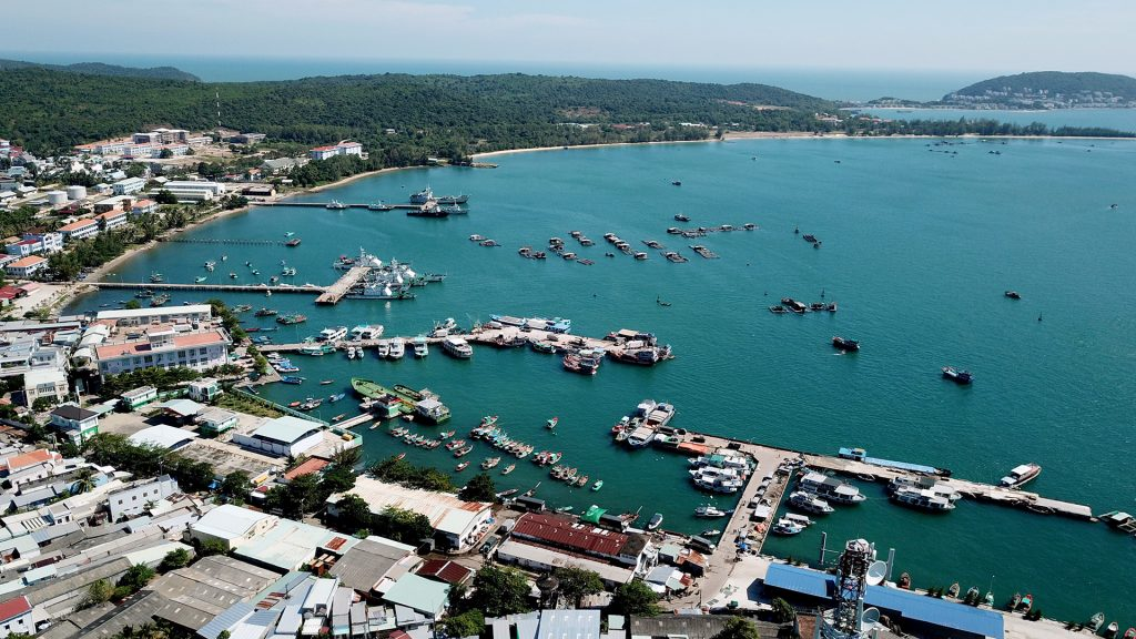 An Thoi port, Phu Quoc